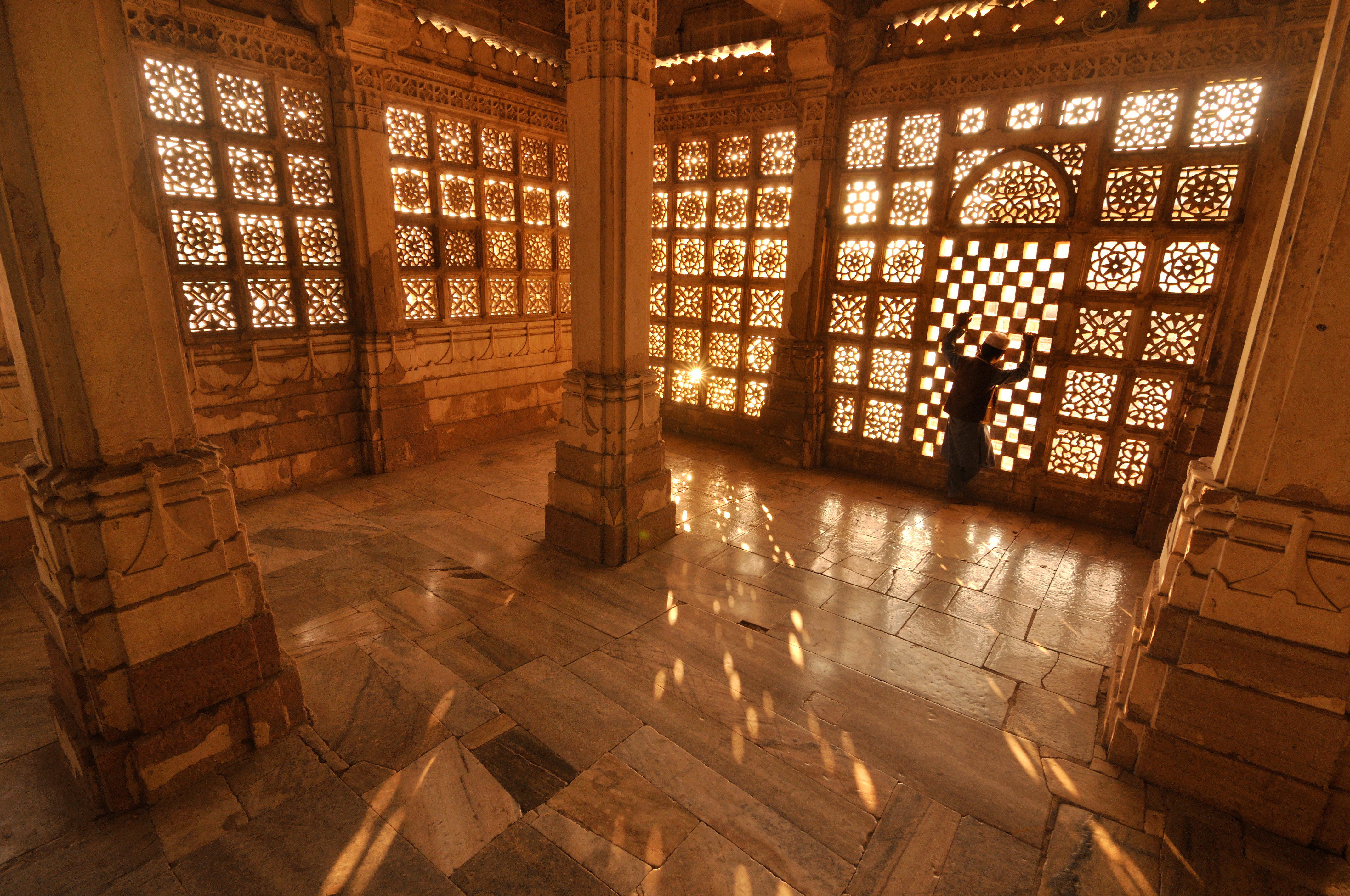 Intricate window work at Tomb of Mahmud Begada located at Sarkhej Roza near Ahmedabad, India.